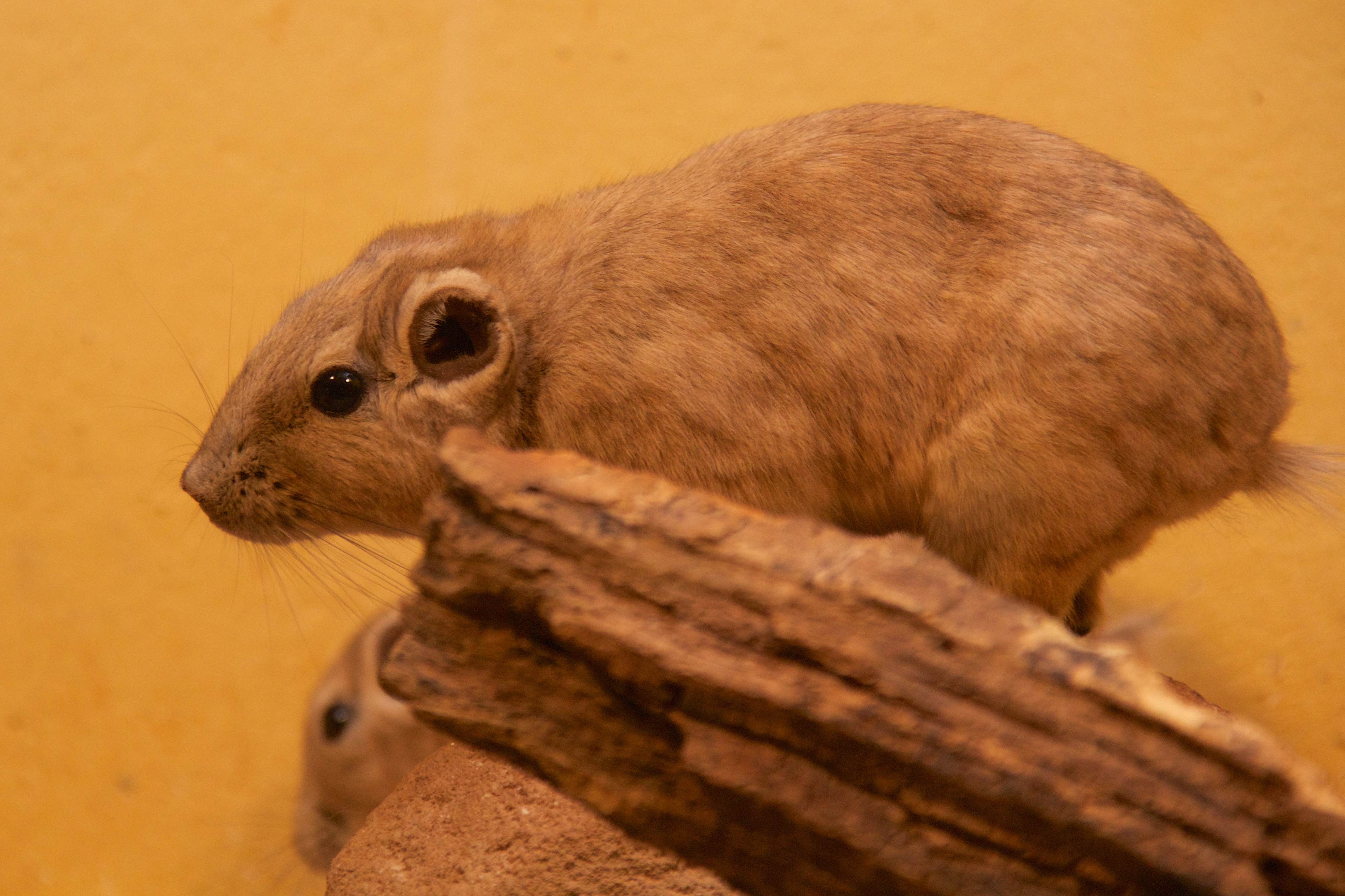 Common Gundi. Ctenodactylus gundi. At Frankfurt Zoo.